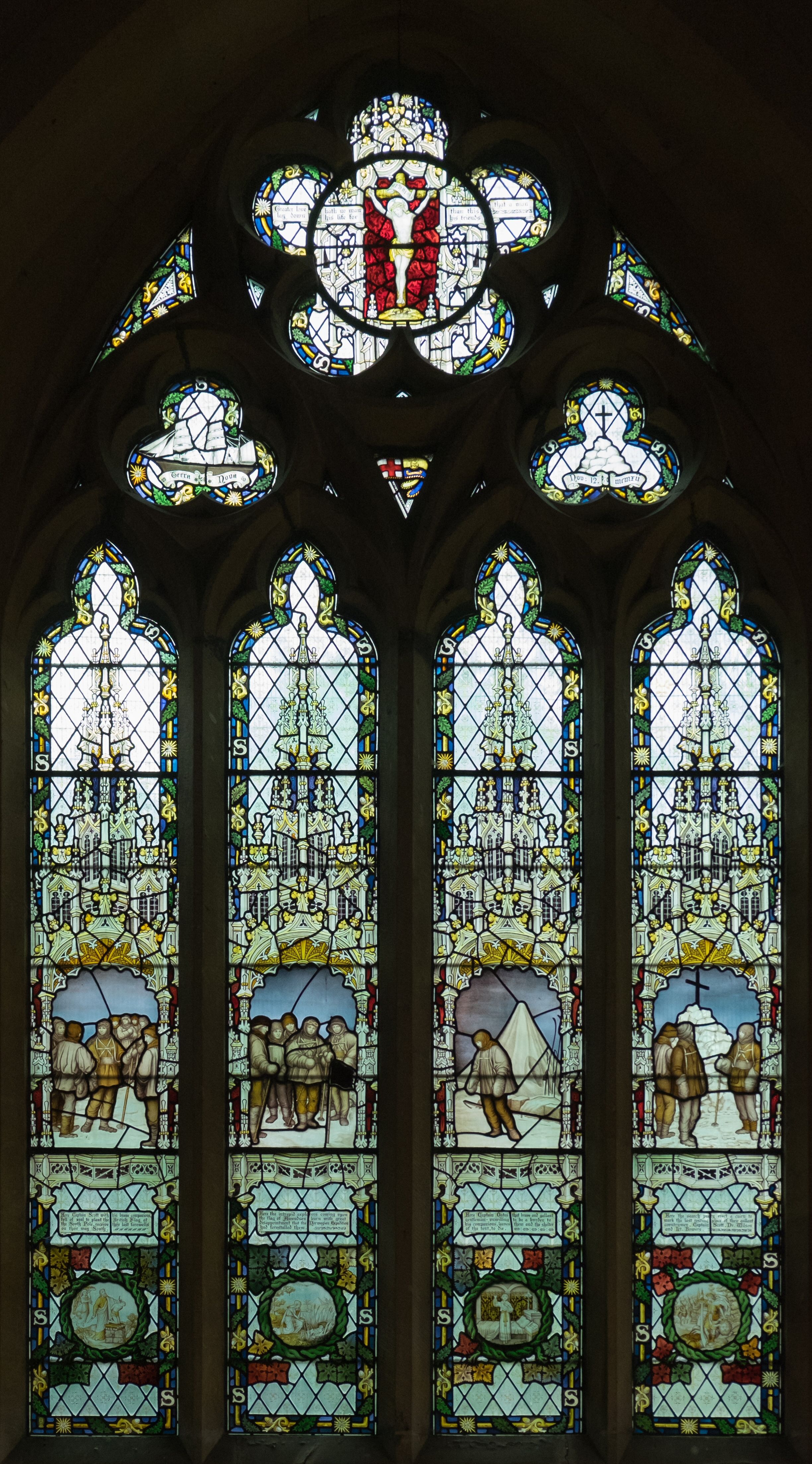 The Scott Window in St Peter's Church, Binton, Warwickshire. This window, in the west wall of the church, is a memorial to Captain Robert Falcon Scott and his companions who died in March 1912 returning from the South Pole on the British Antarctic Expedition. The window, designed by John W. Lisle and made by Charles Kempe & Co. was dedicated on 25 September 1915.